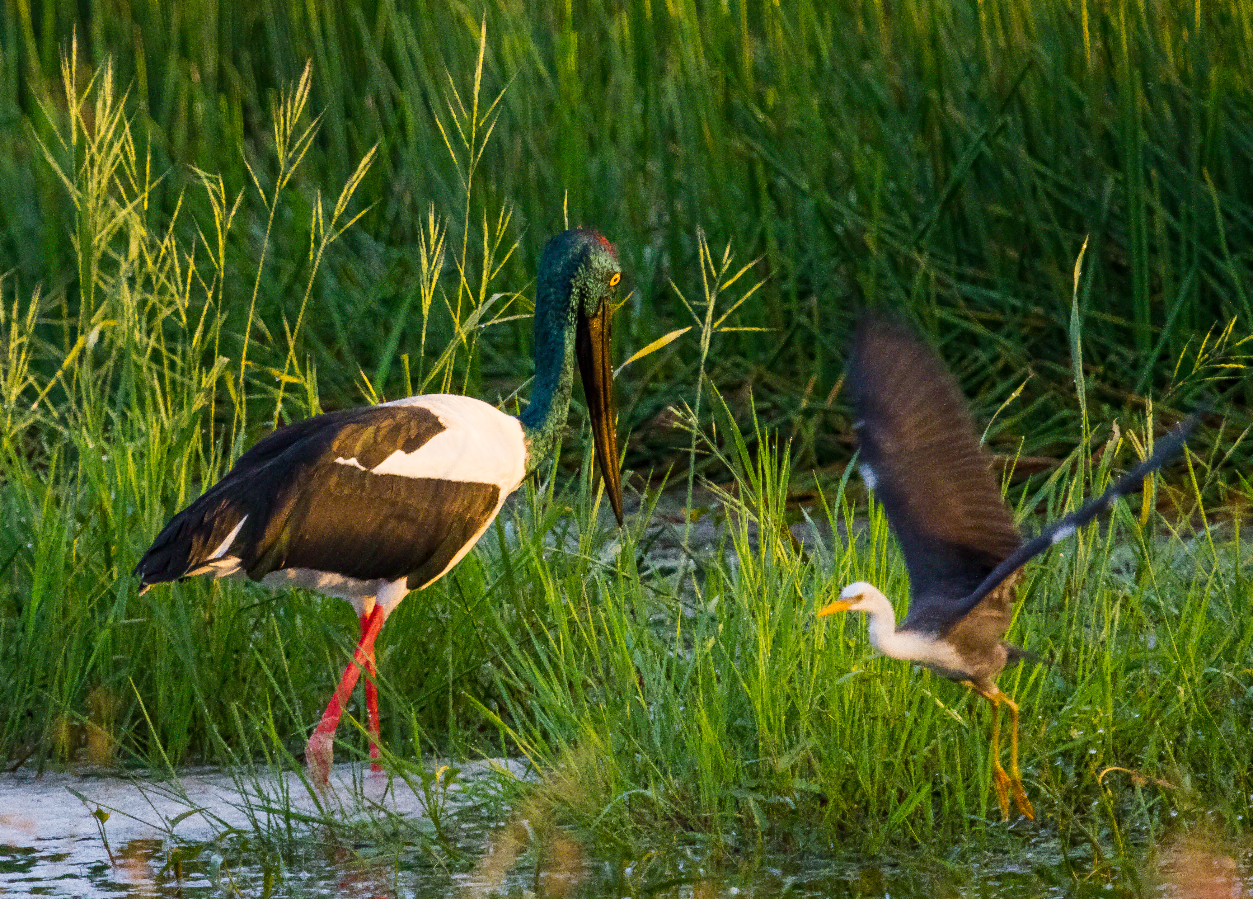 Black necked stork (Jabiru) - Fogg Dam - Northern Territory - Australia & Juvenile Pied Heron in flight